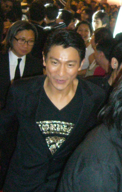 Andy Lau at the preview of the film The Warlords at SF World Cinema, CentralWorld, Bangkok.